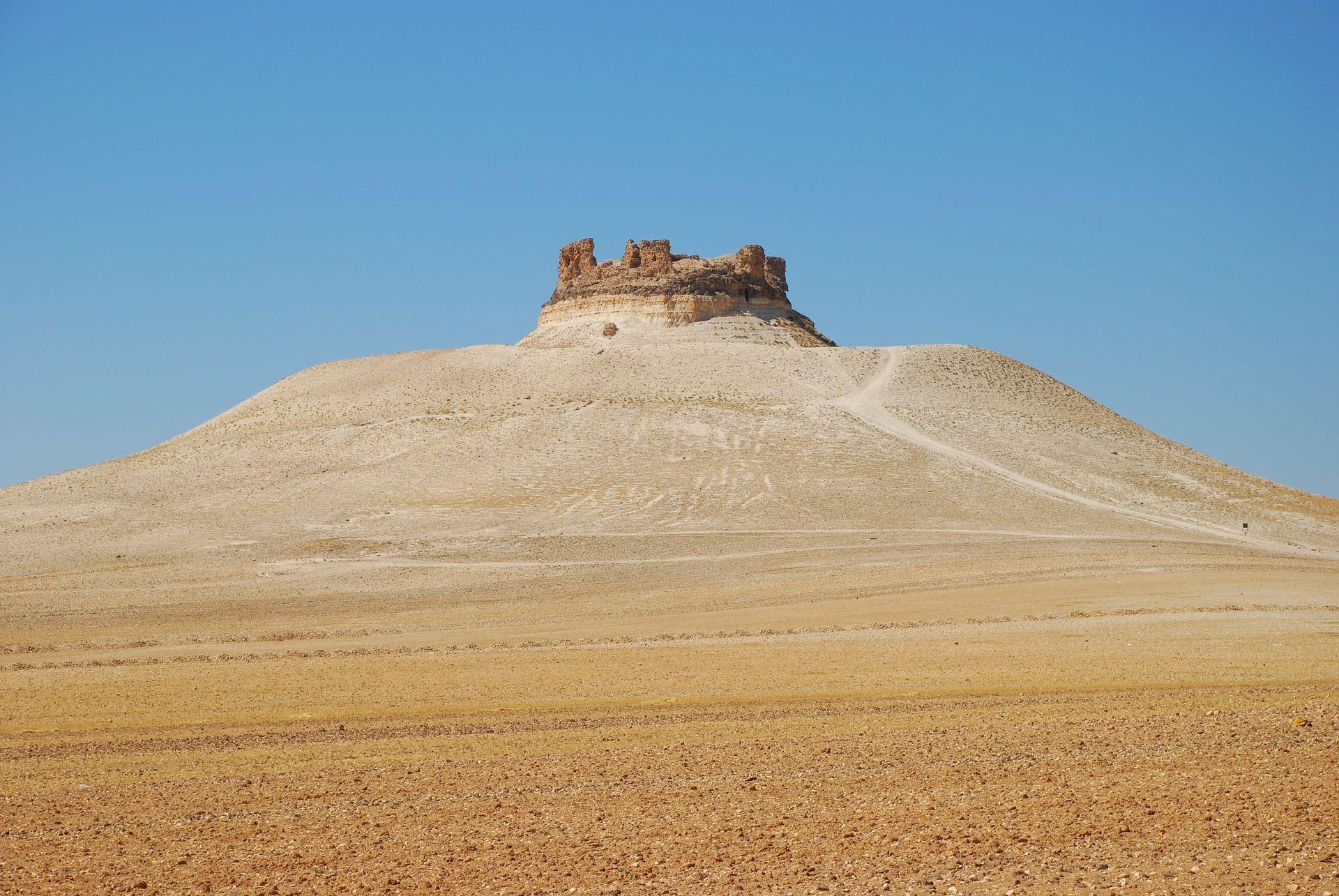 Shmemis castle near Salamiyya, Syria